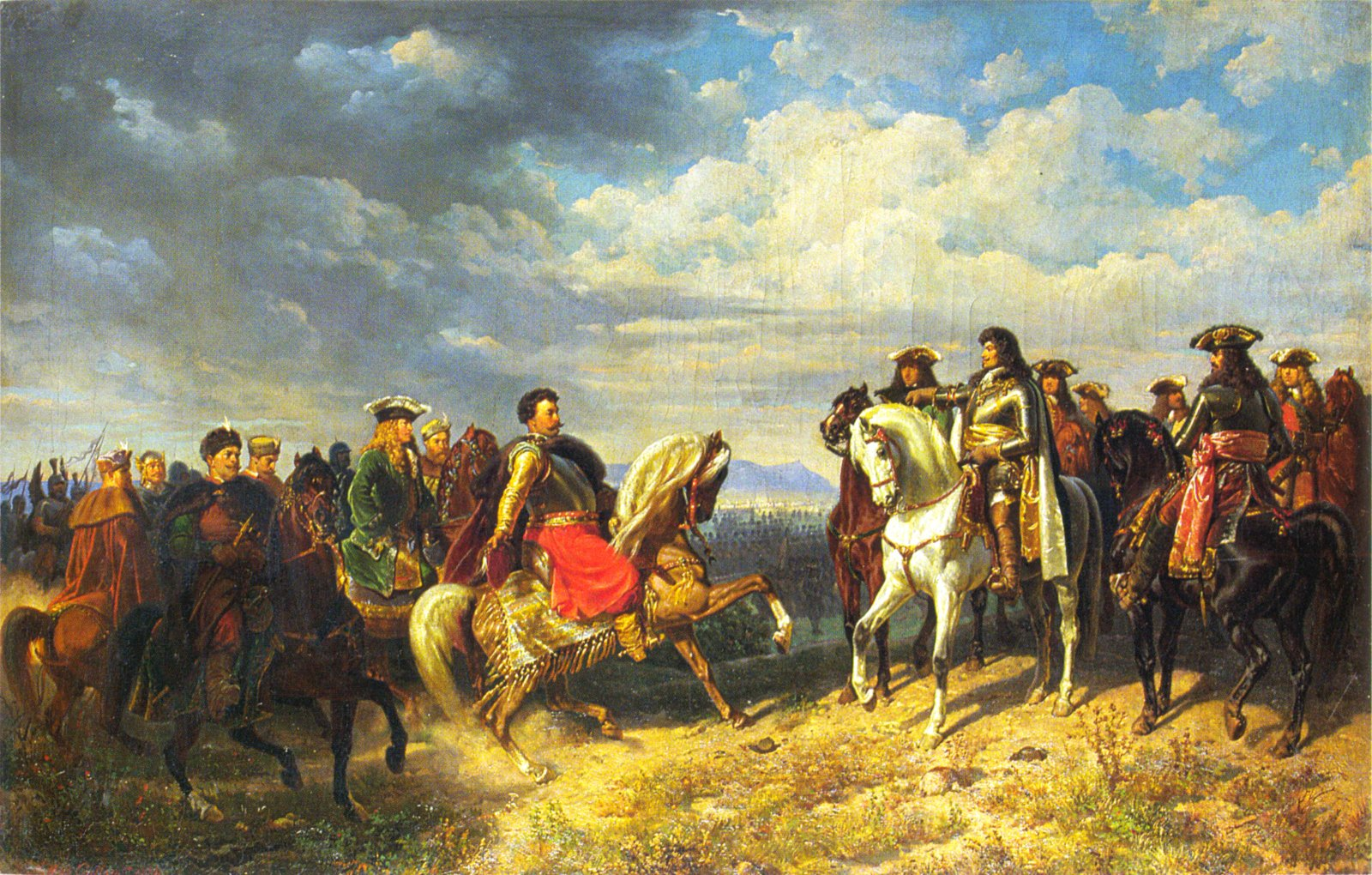 King Jan III Sobieski meets emperor Leopold I near Schwechat after Battle of Vienna, September 12, 1683